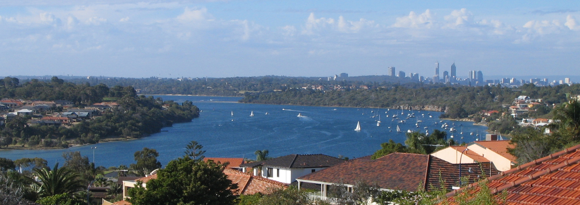 View from East Fremantle along Blackwall Reach of the Swan River towards Point Walter, with the Perth skyline in the background, Western Australia.